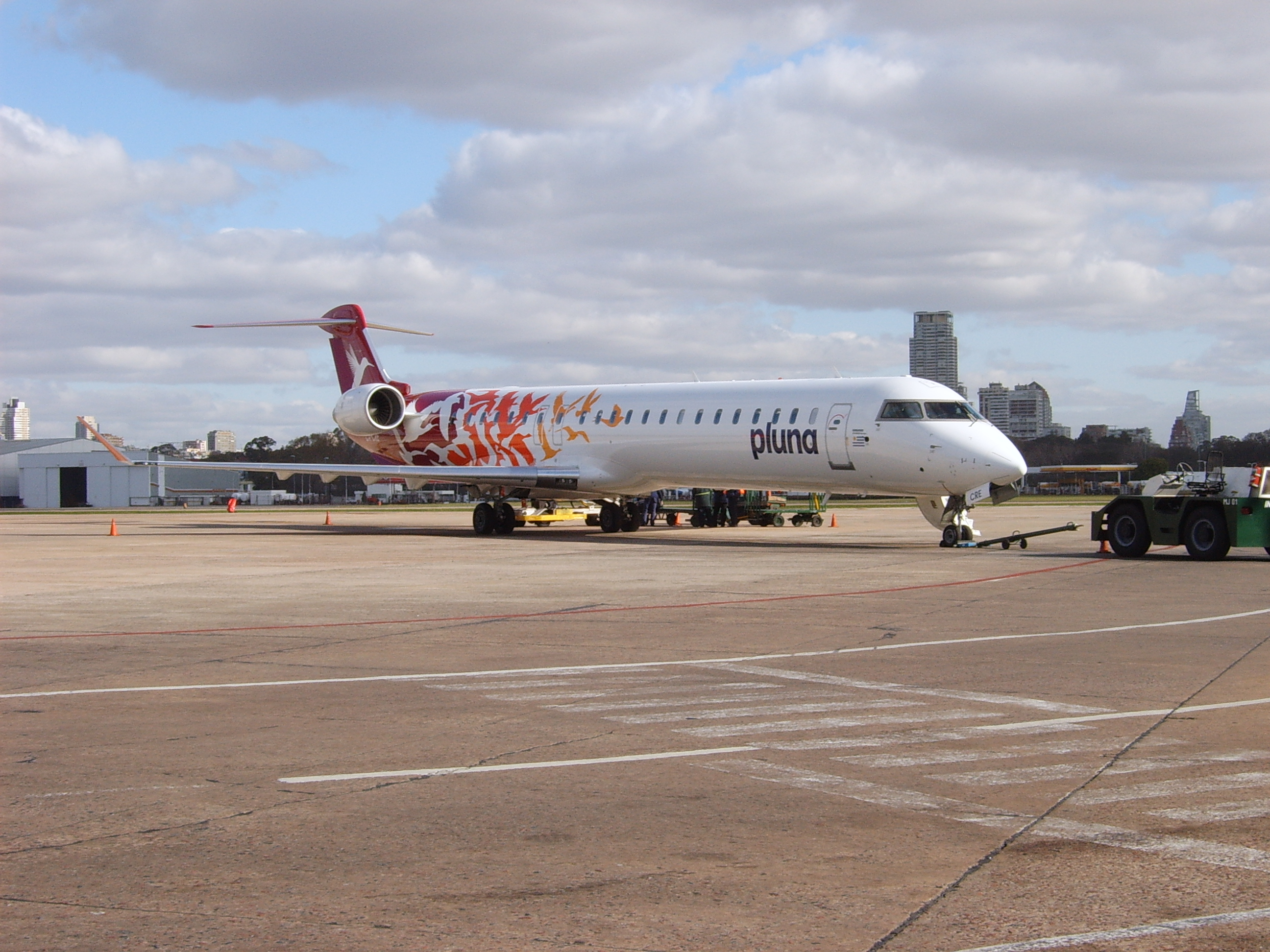 Picture of Pluna Bombardier 900 at Aeroparque Airport at Buenos Aires. Date : 2008.